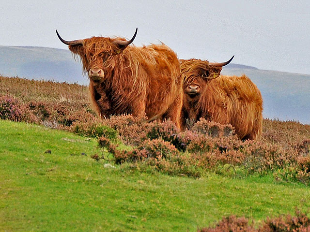 Highland Cattle Hardy beasts, well adapted to the conditions.